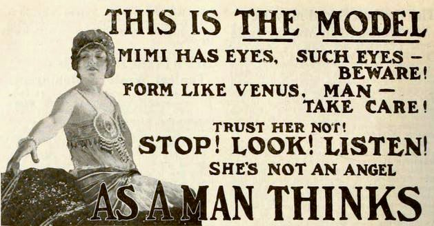 Ad for the American drama film As a Man Thinks (1919) with Mlle. Elaine Amazar, on page 116 of the April 5, 1919 Moving Picture World. There was a small ad on subsequent pages of the magazine each with a character from the film.